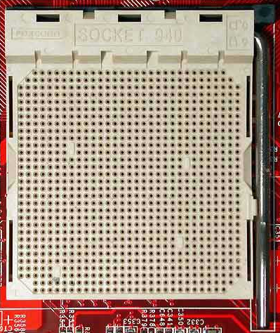 Socket 940 for AMD Opteron and Athlon 64 FX processors. Photo by myself.